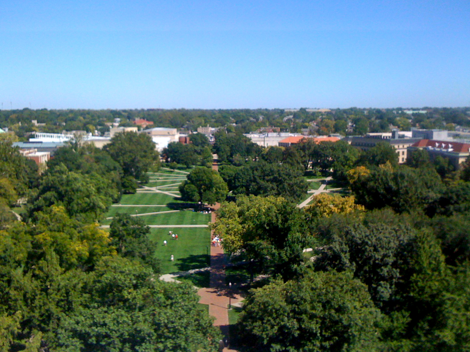 View of The Oval at OSU from Thompson Library